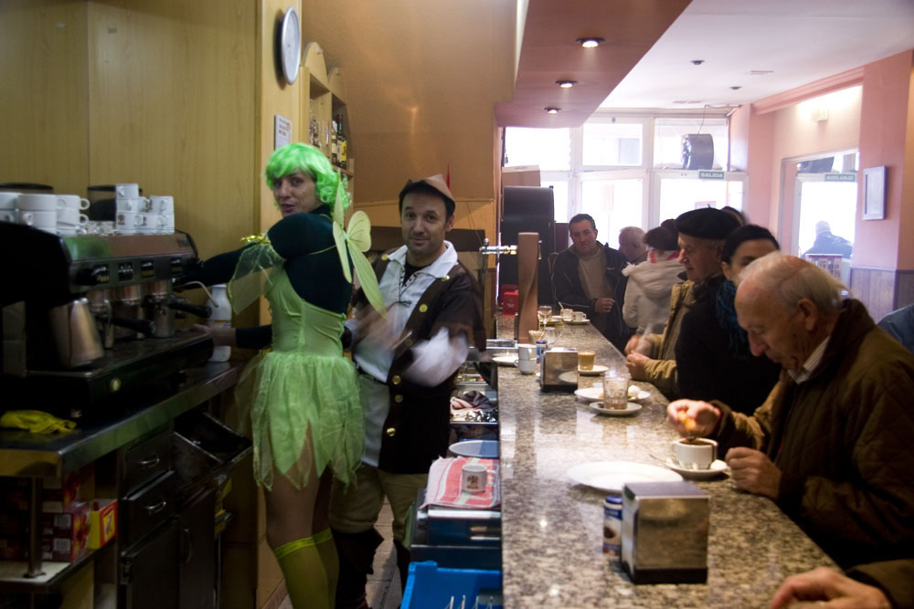 Dressed up people work in La Bañeza in Carnival. Leonese region.